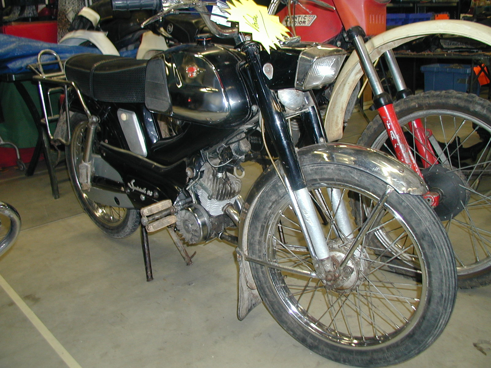 French Mobylette Special 98 - Picture Gérard Delafond